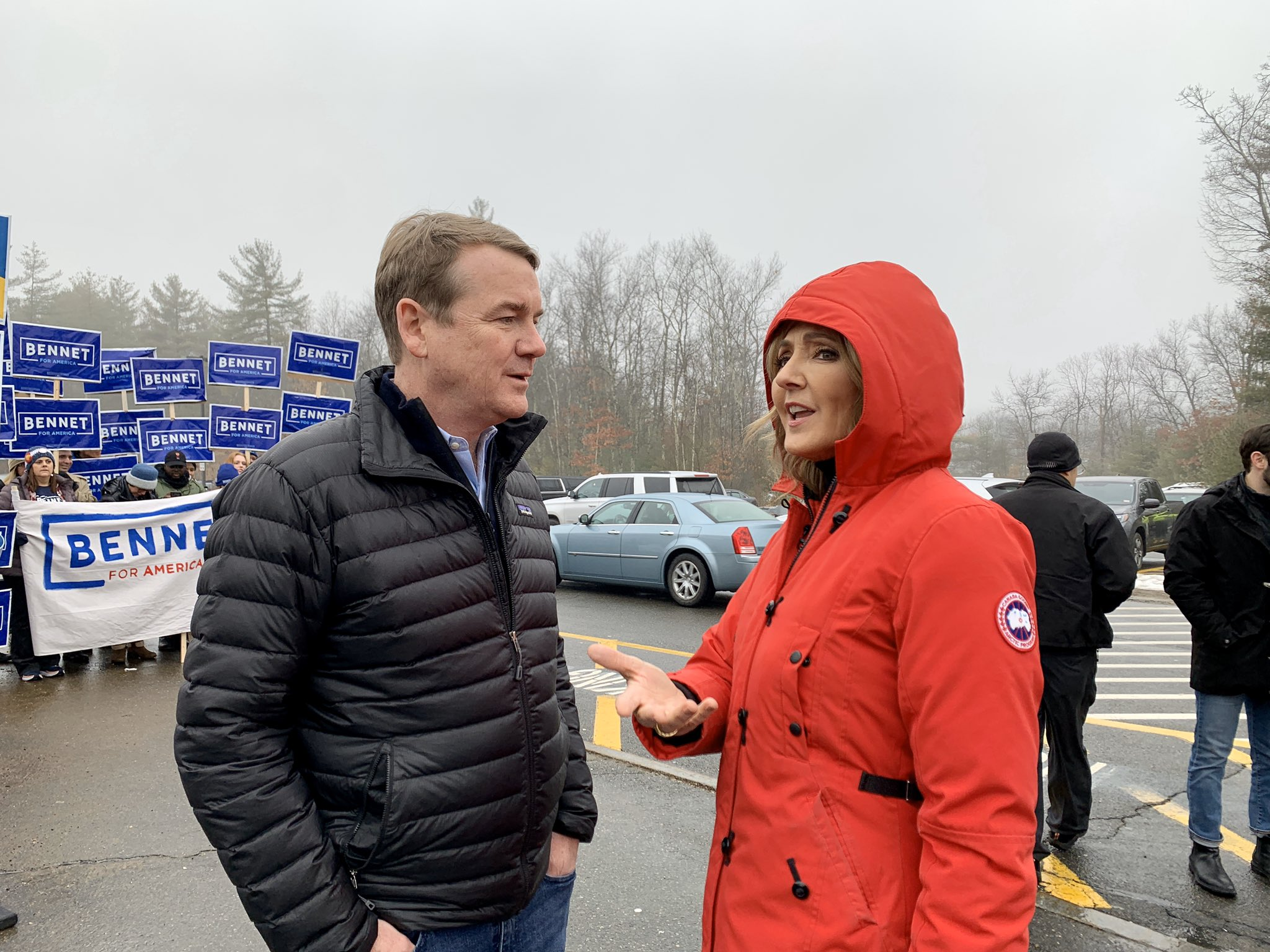 Going live with @ChrisJansing from a polling location in Bedford